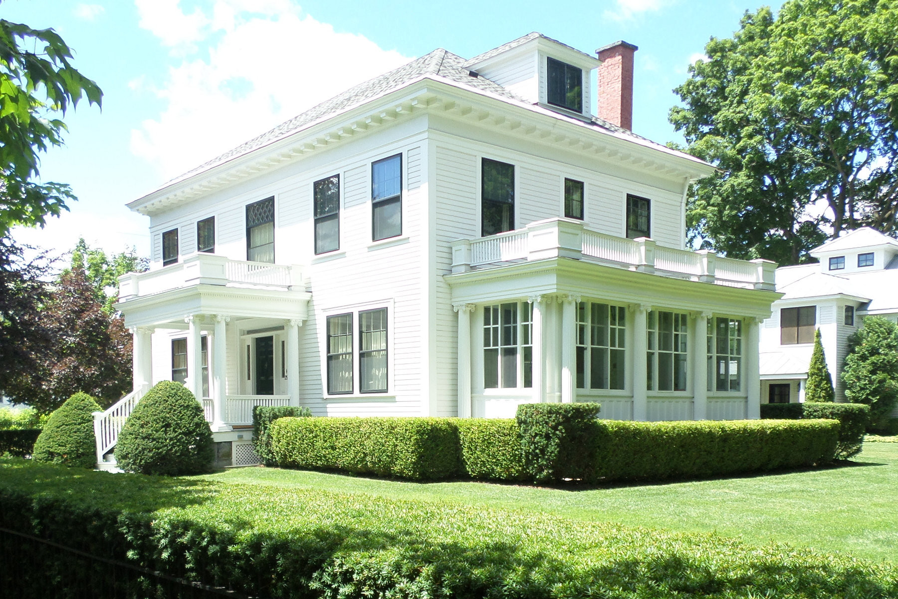 Designed by R. Newton Brezee (1906)